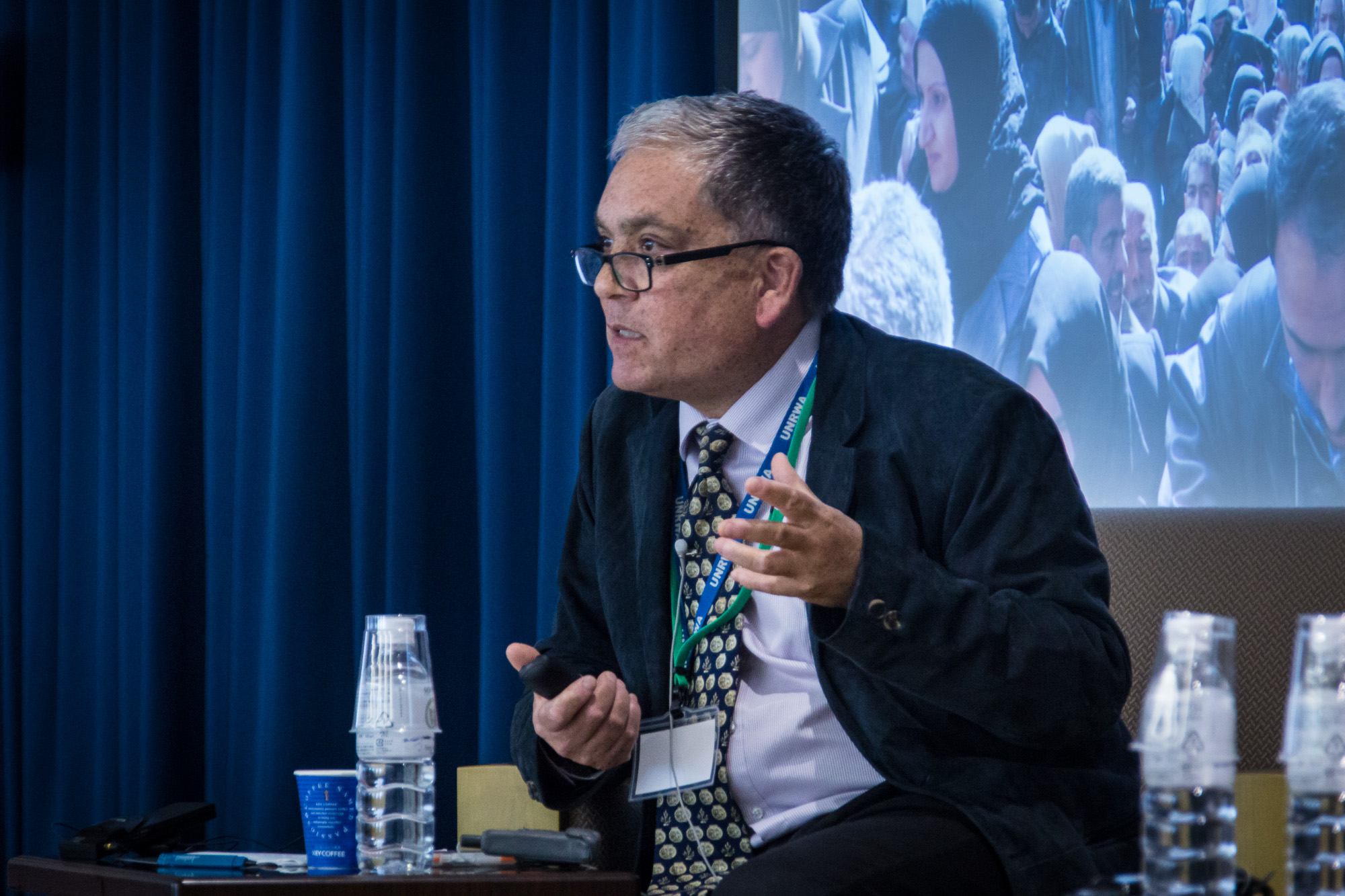 2014 International Media Seminar on Peace in the Middle East, Sophia University, Tokyo, 9–10 June 2014, organized by the United Nations Department of Public Information in cooperation with the Ministry of Foreign Affairs, Japan. Photo: United Nations / John Gillespie